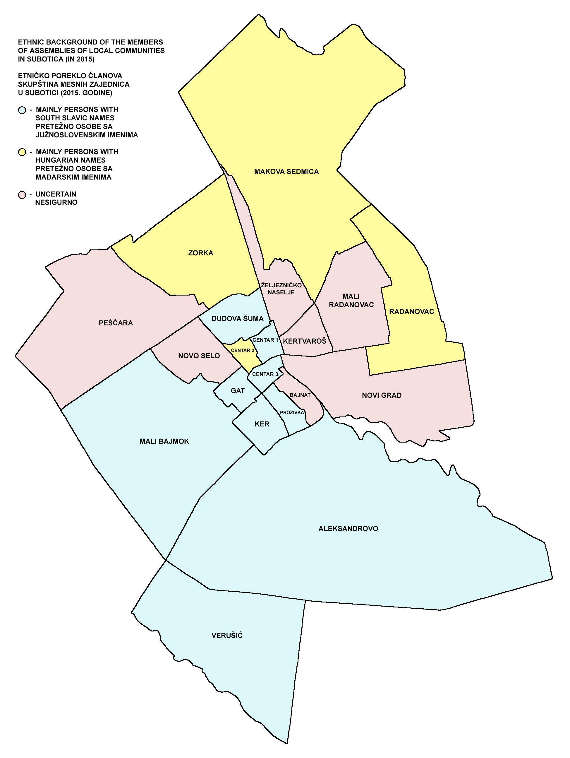 Ethnic background of the members of assemblies of local communities in Subotica (in 2015) - based on names of the members of assemblies of local communities from this web site: [1].Etničko poreklo članova skupština mesnih zajednica u Subotici (2015. godine) - bazirana na imenima članova skupština mesnih zajednica sa ovog veb sajta: [2].